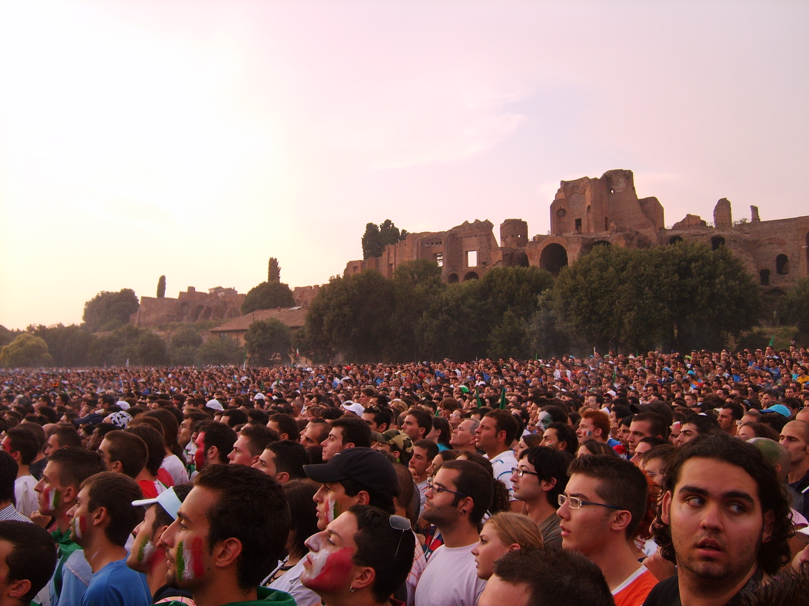 A lot of people gathered in Circus Maximus, Rome, to watch all together the final of the FIFA World cup 2006 Italy vs France. This is a picture I took during the match, staying within the crowd.